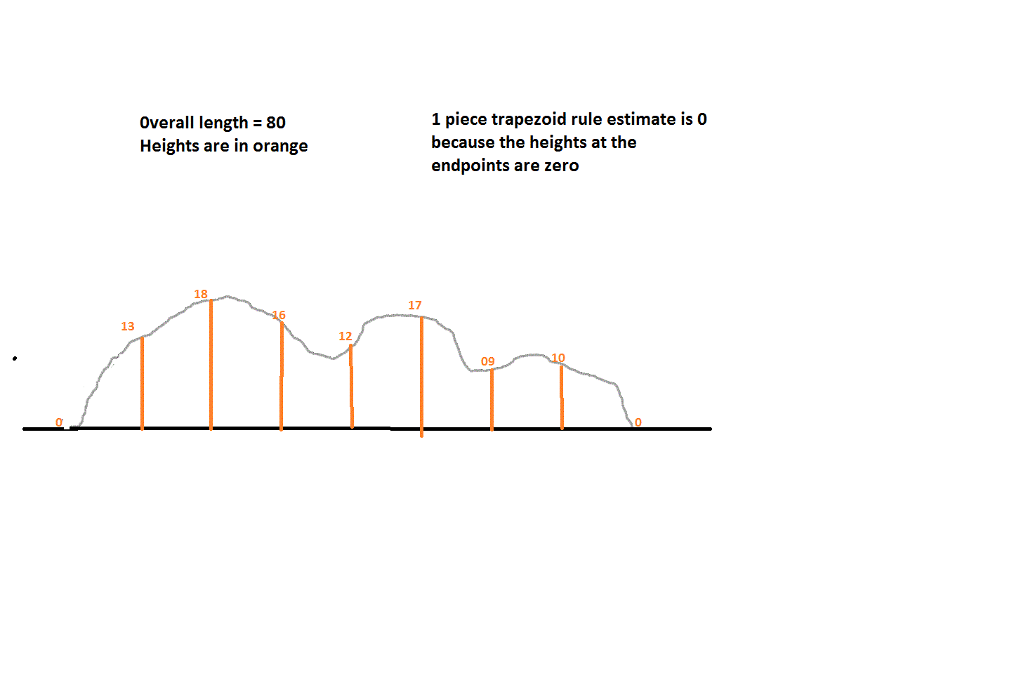 A freeform curve drawn to illustrate the Romberg method of estimating integrals